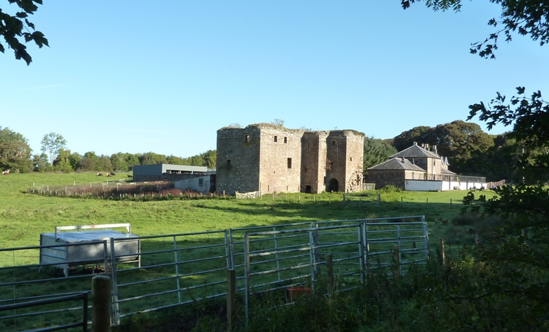 Thomaston Castle, South Ayrshire, Scotland